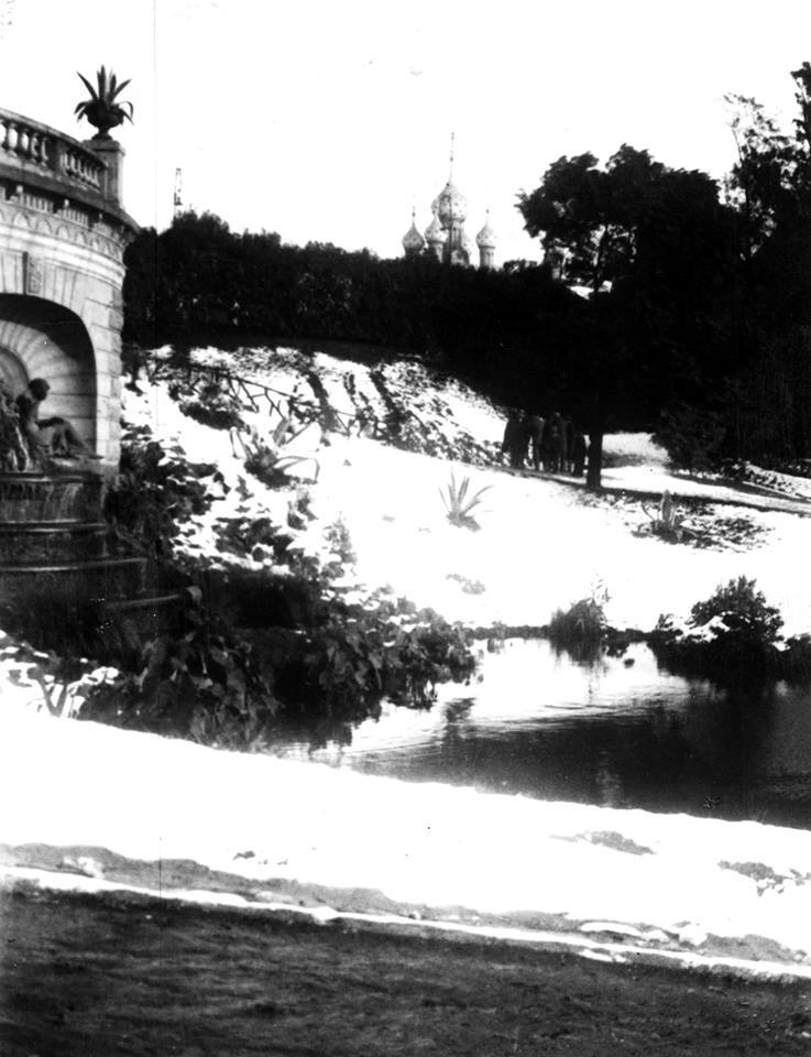 The Parque Lezama of Buenos Aires after a snowfall.